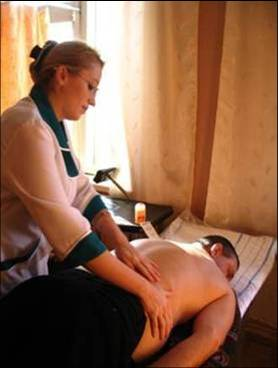 Метод бишофитотерапии